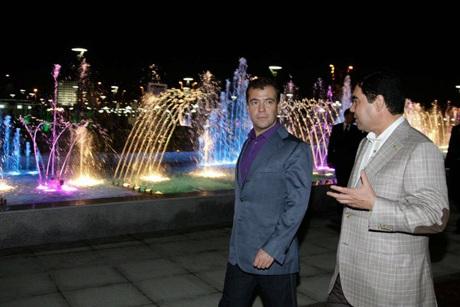 Visiting an Avaza tourisitc zone. With President of Turkmenistan Gurbanguly Berdimuhamedov.